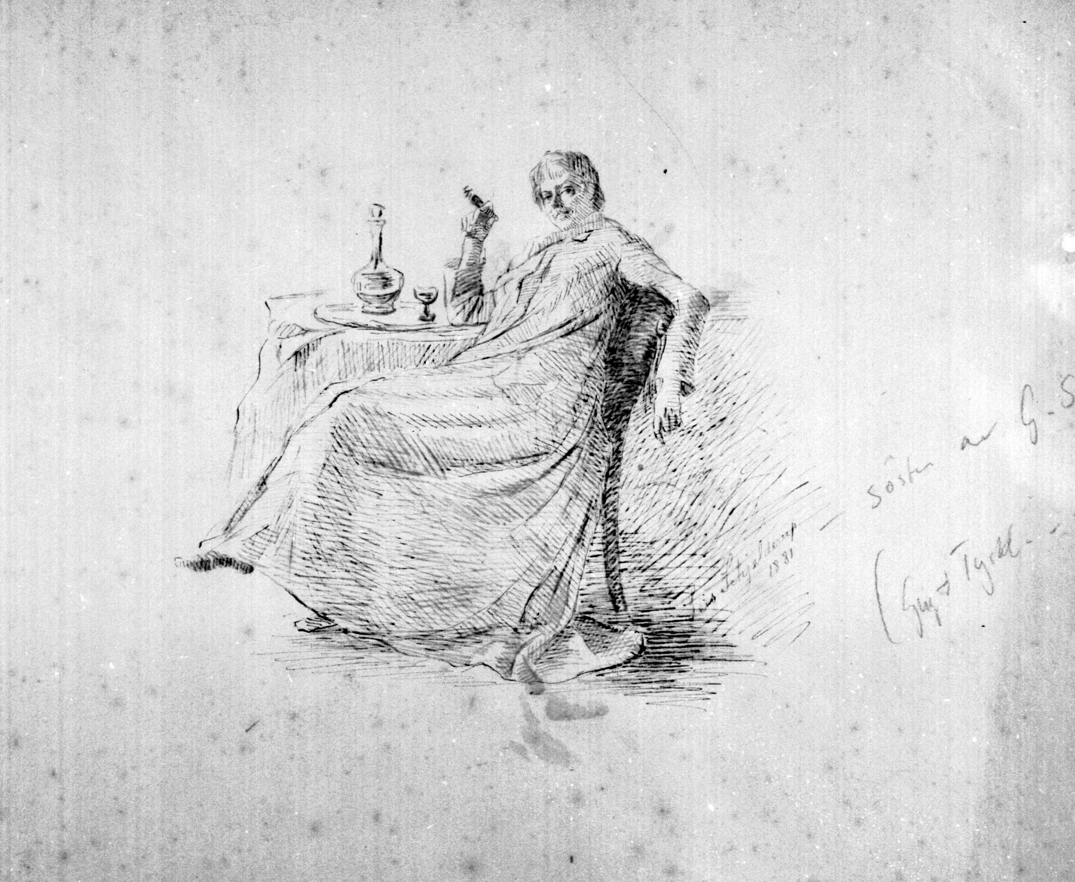 caricature by Leis Schjelderup